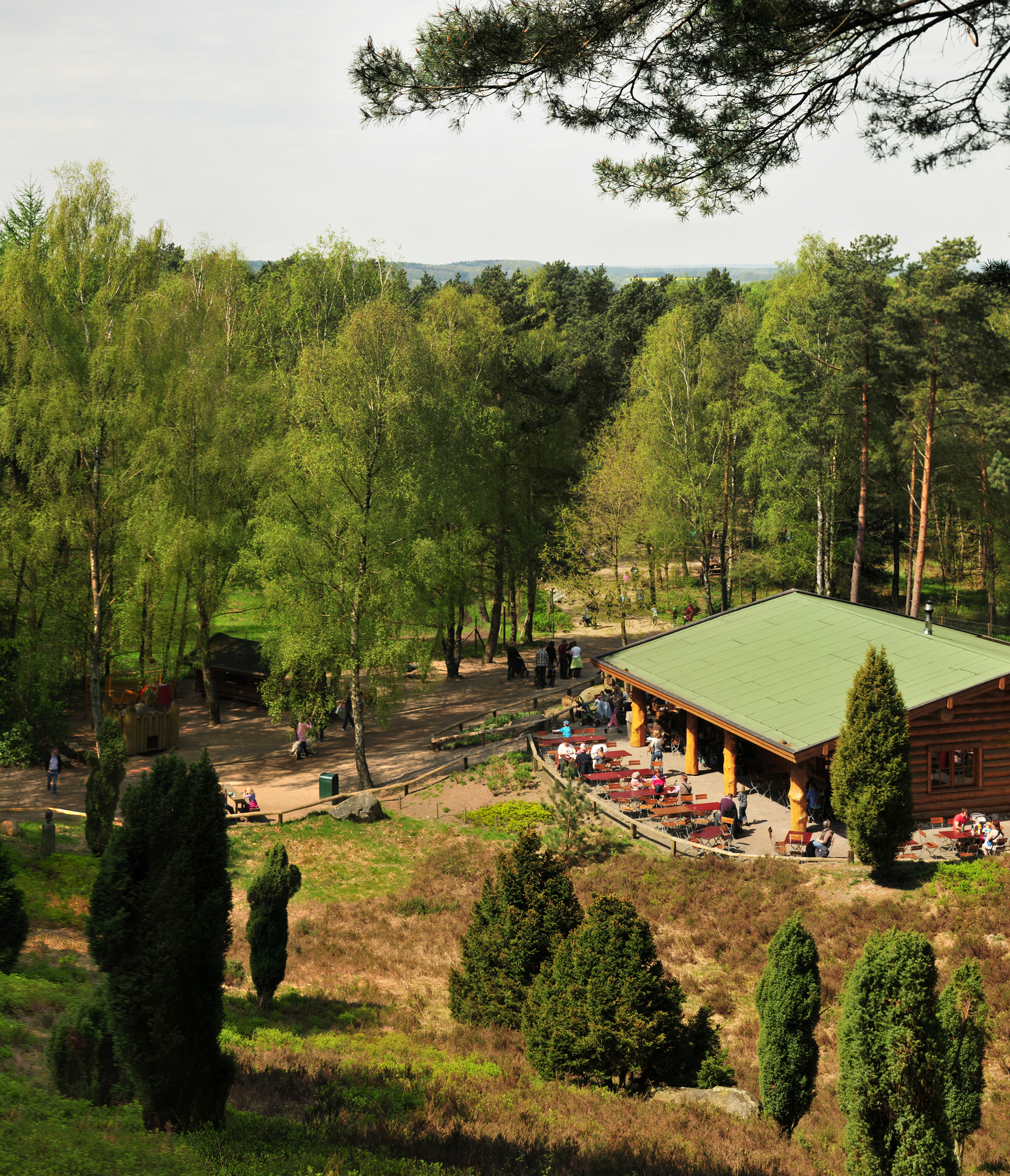 View of the Moose Lodge Restaurant in the Lüneburg Heath Wildlife Park near Nindorf, Hanstedt, Germany.